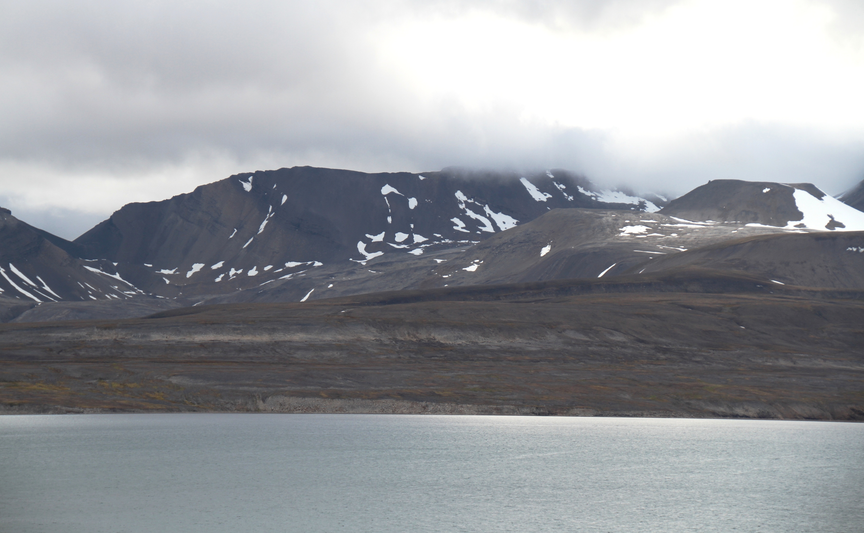 Image from the Green Harbour (Grønfjorden) in western Spitsbergen - seen from the settlement of Barentsburg in the east towards west. The image shows the mountainous areas on the western side of the fjord.